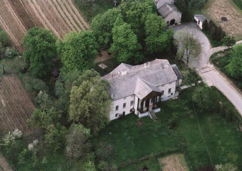 Lesencetomaj, Hungary, aerial photography